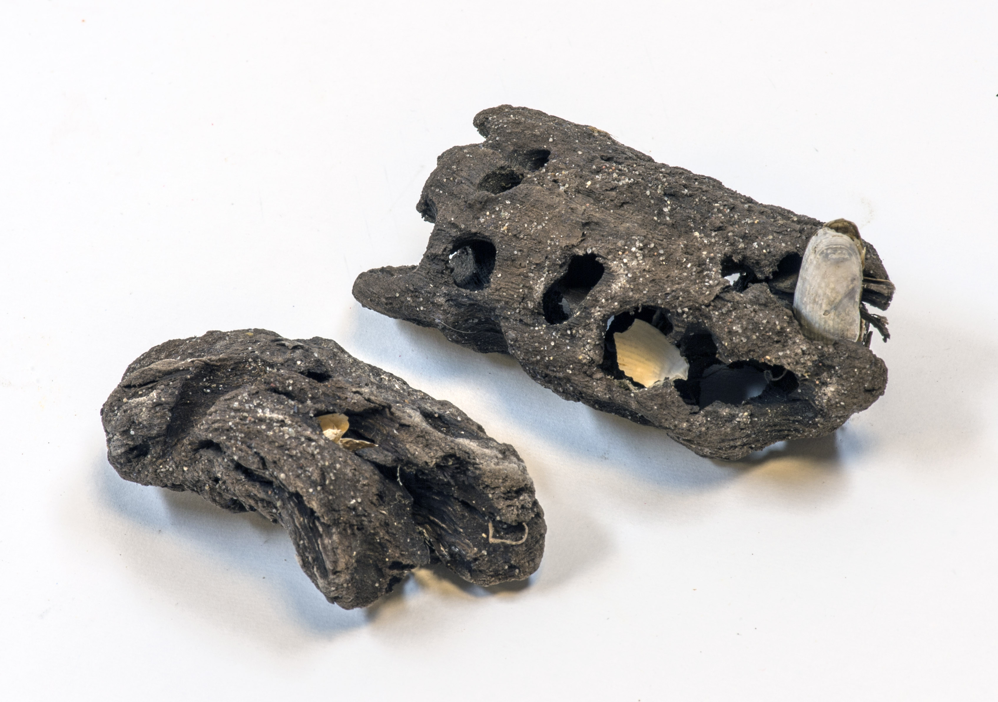 Venus clam (petricola pholadiformis) resting in holes drilled in wood by the clam, found in Eckernförde Bay, Baltic Sea